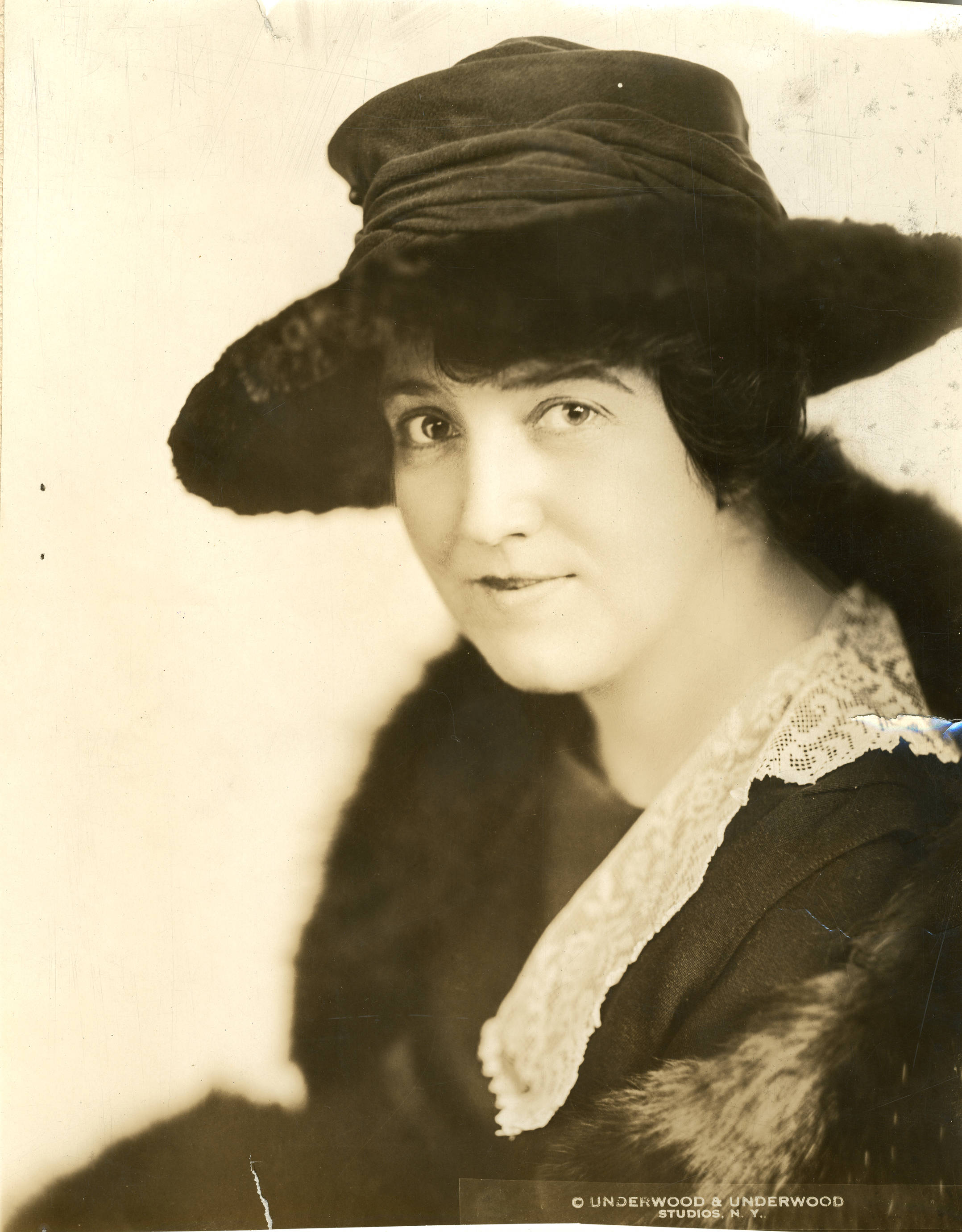 Singer Lucy Gates. Subjects: singers